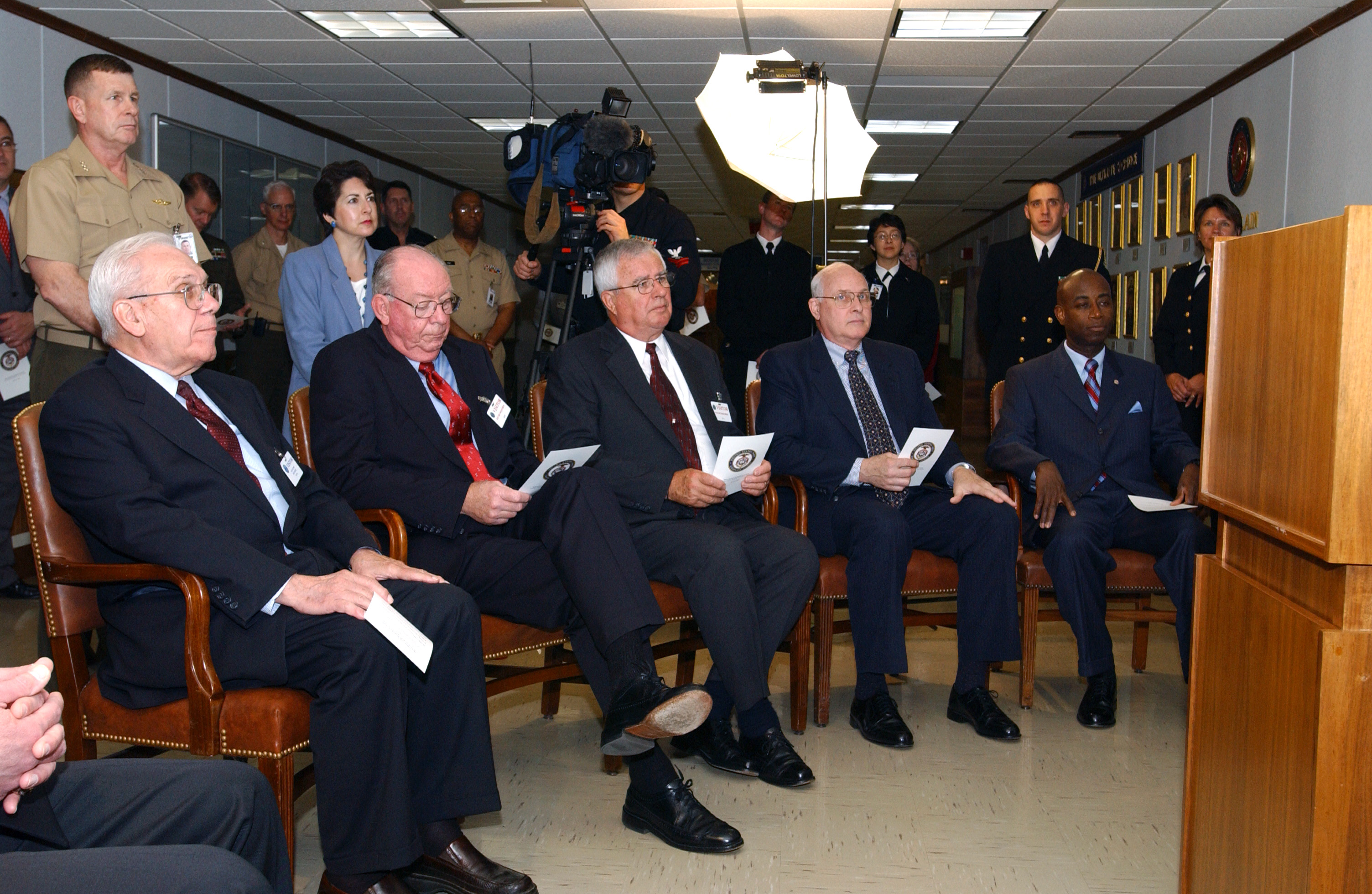 Arlington, Va. (Apr. 26, 2004) - Five former U.S. Navy Chief of Chaplains, left to right, Rear Adm's (ret.) Ross H. Trower, Neil M. Stevenson, Alvin B. Koeneman, David F. White, and Barry C. Black, attend the dedication ceremony of the Navy Chief of Chaplains Hallway at the Navy Annex located in Arlington, Va. U.S. Navy photo by Photographer's Mate 2nd Class Rob Rubio. (RELEASED)